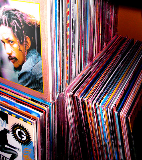 UDL. Dub Lab. Foto: Dubdem